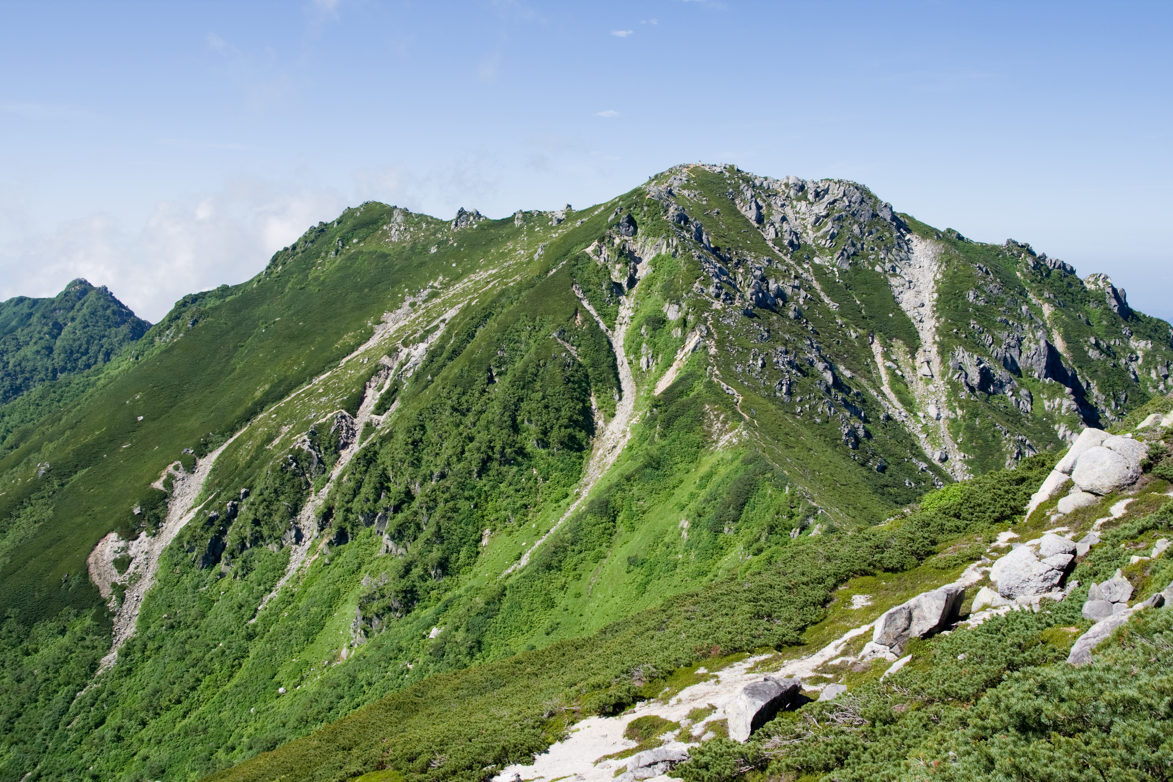 Mt.Minamikomagatake as seen from Mt.Akanagidake in Mts.Kiso, Nagano Pref., Japan.